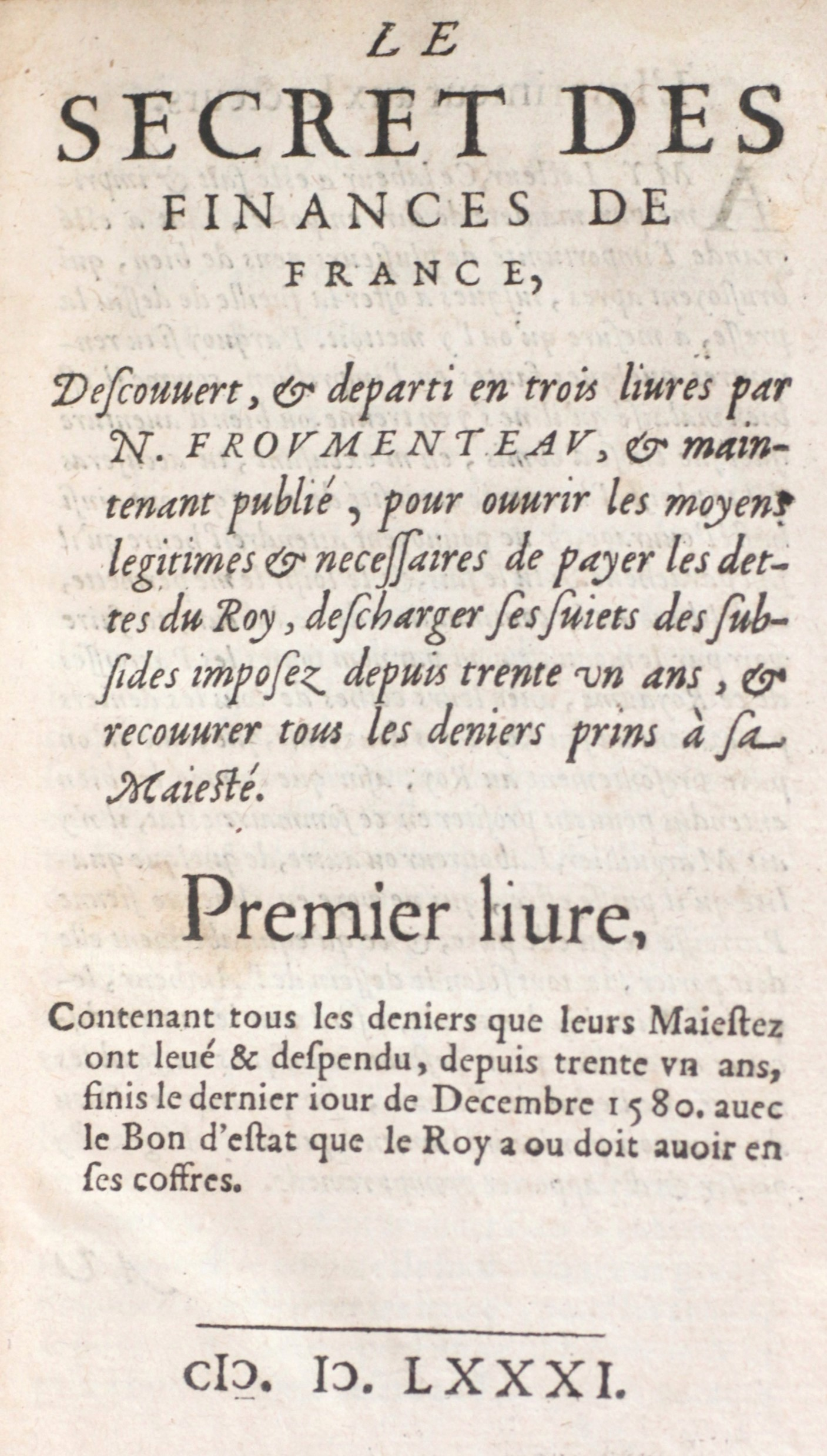 Froumenteau (Nicolas Barnaud): Secret des Finances de France